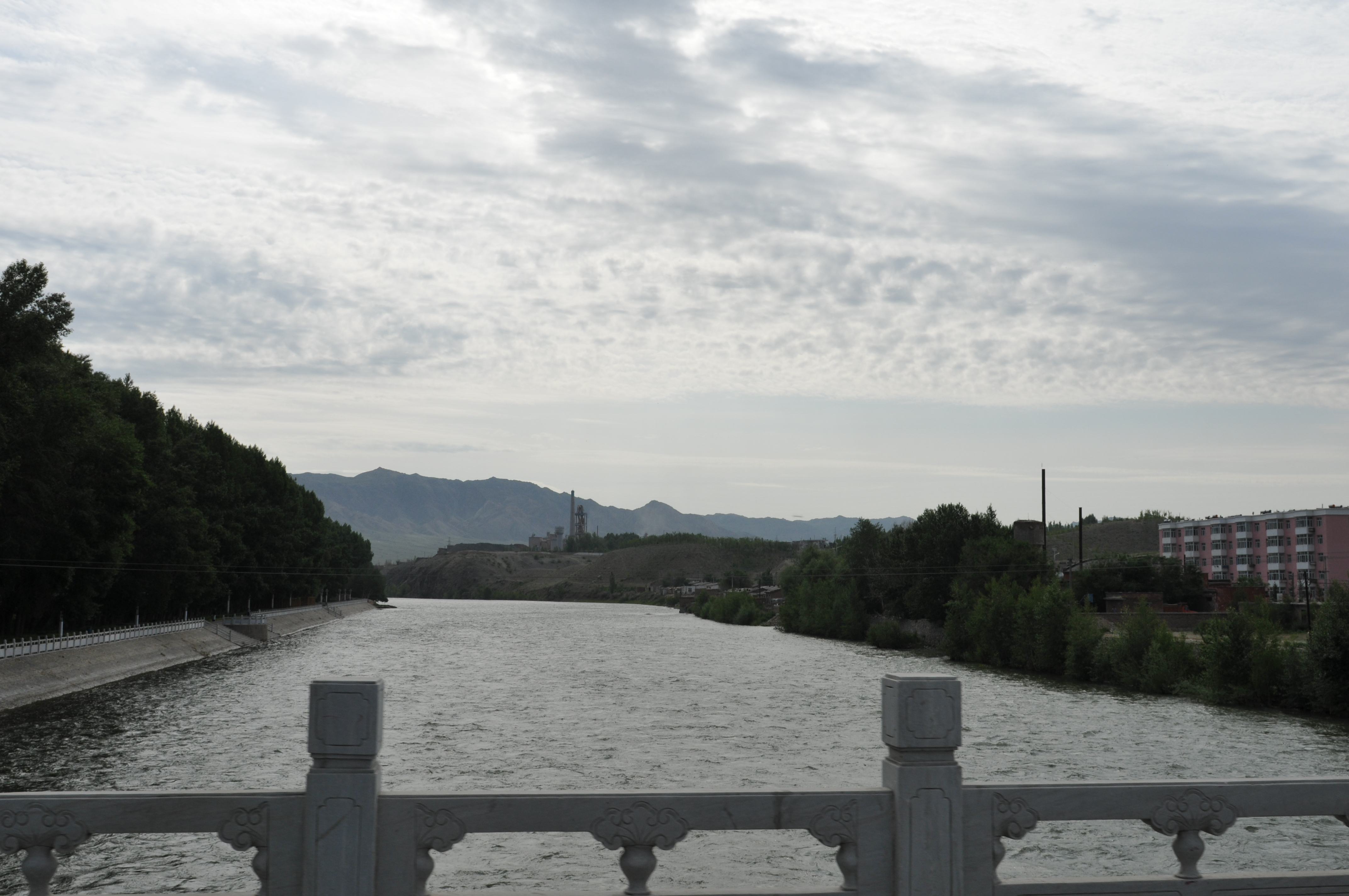 Irtysh River view from the bridge in Koktokay, Xinjiang, China.